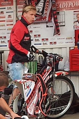 Danish speedway rider Michael Jepsen Jensen in the pits at the East of England Showground, Alwalton